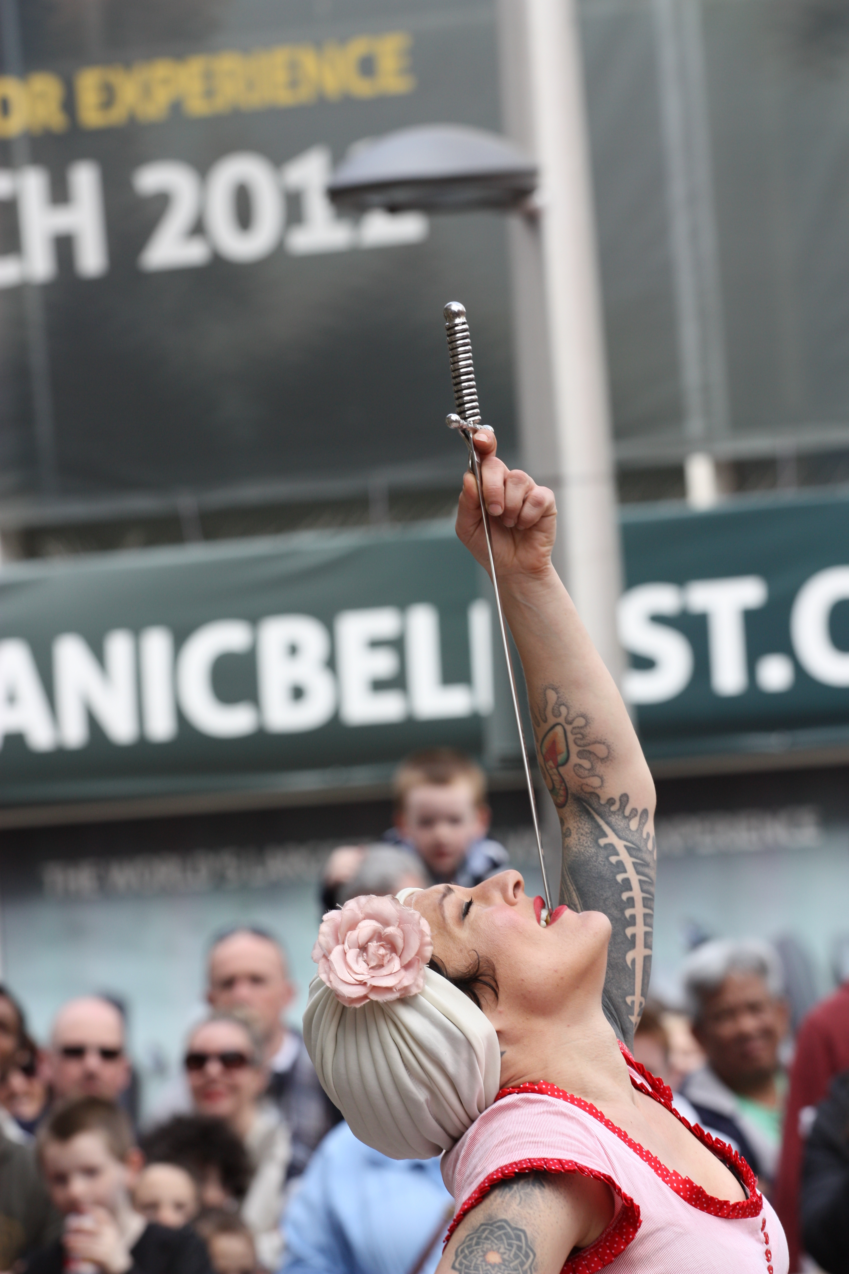 Miss Behave, Festival of Fools, Cornmarket, Belfast, May 2013